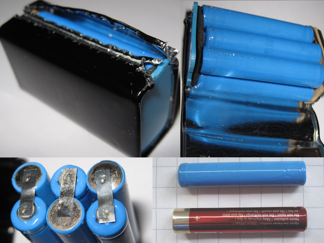 Collage of images showing the dissection of a 9V (PP3) battery to reveal the 6 AAAA-like cells inside. AAAA batteries are sometimes used in small devices like laser pointers and some remote controls. They are quite expensive and it is often cheaper to buy a well known 9V brand and take it apart to get to the cells inside. These cells are in fact LR61 which are about 3 mm shorter than AAAA (LR8D425) cells. However they are the same voltage and can be used in place of proper AAAAs and should function just as well. Although care should be taken with the difference in length and the lack of polarity markings on the cells themselves. The red battery shown in the final image is a AAAA size, to show the minute difference in sizes.